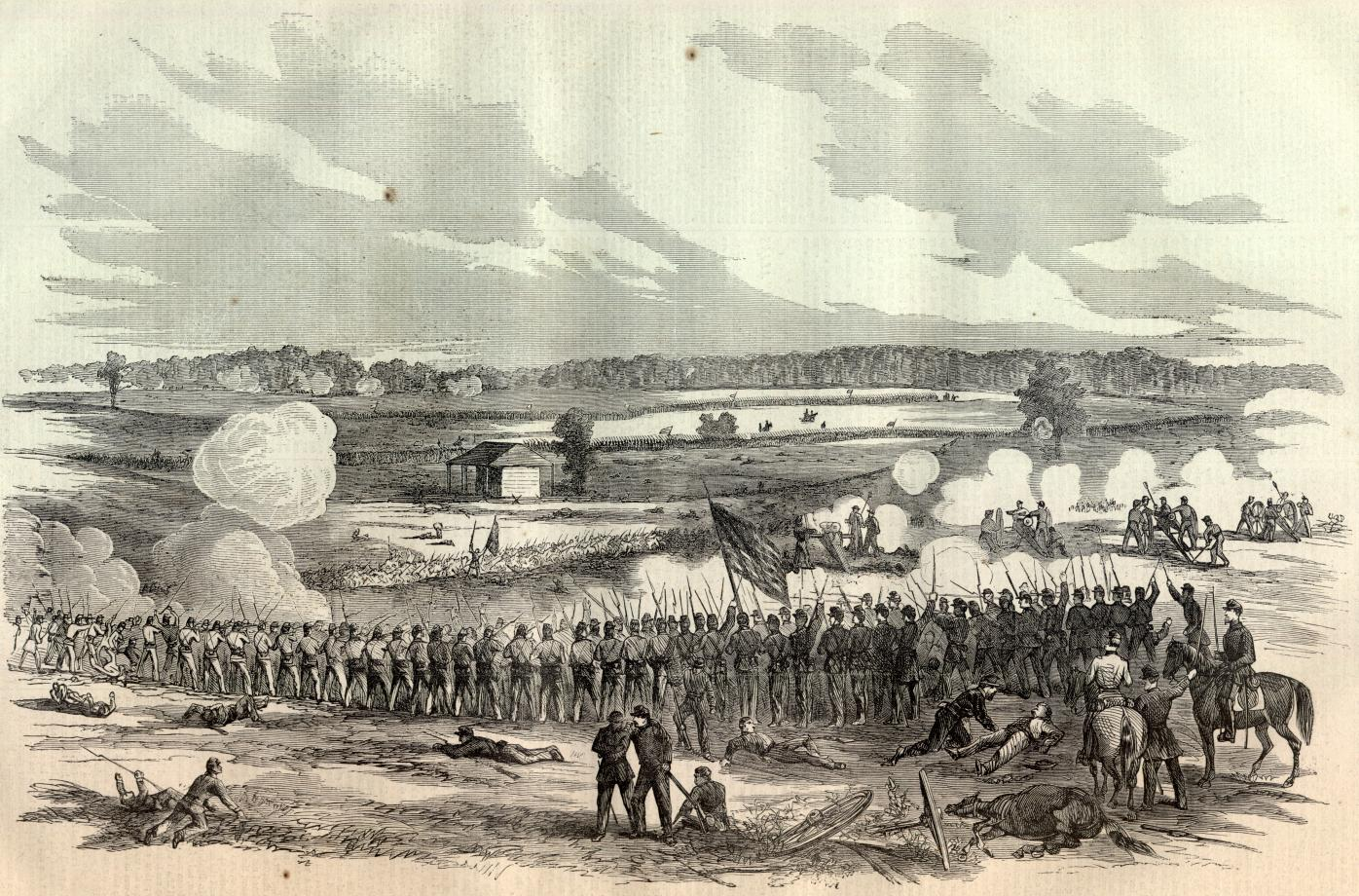 Harper's Weekly image of Battle of Perryville (Civil War, Kentucky, USA) from November 1, 1862. Source